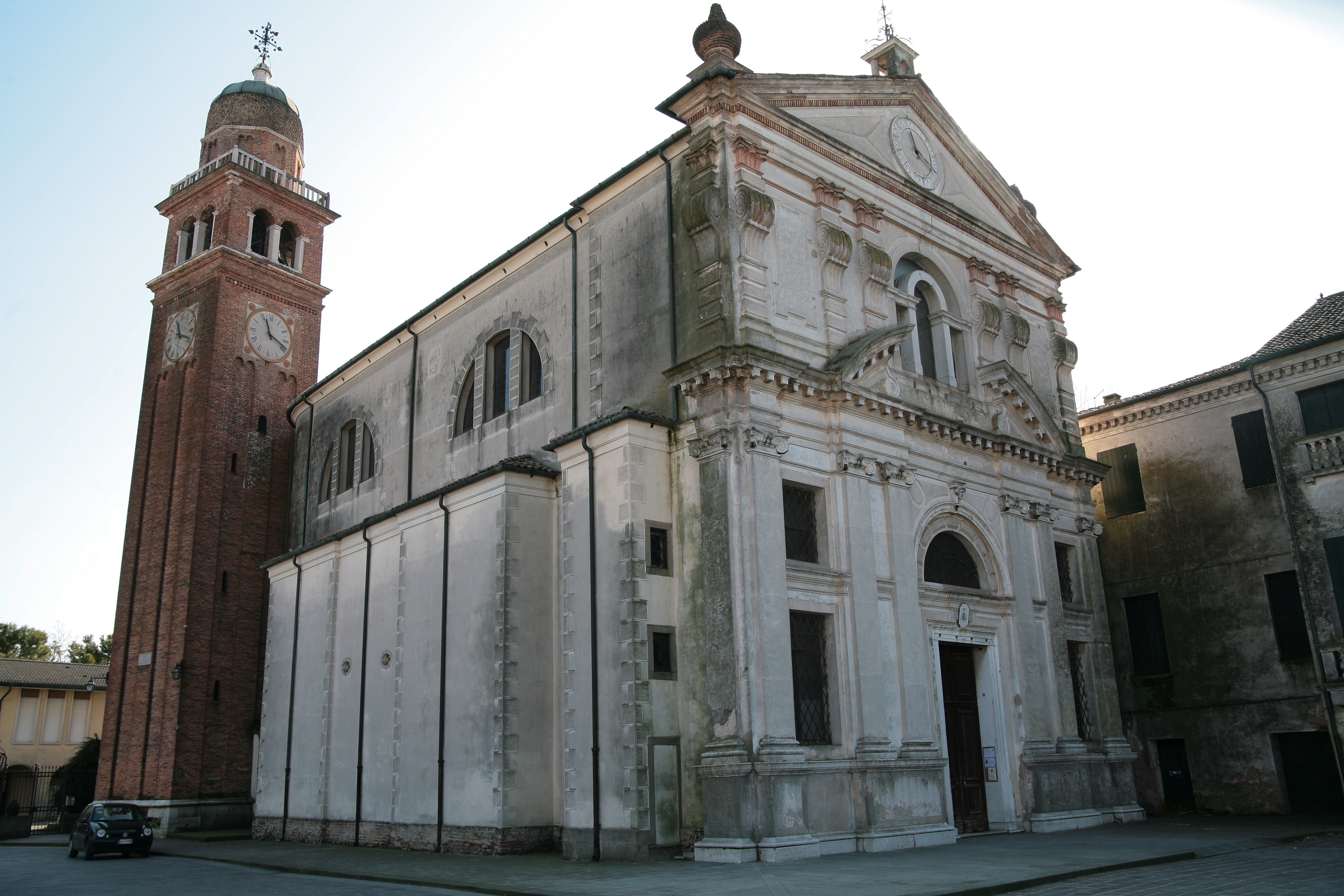 Chiesa Bagnoli di Sopra